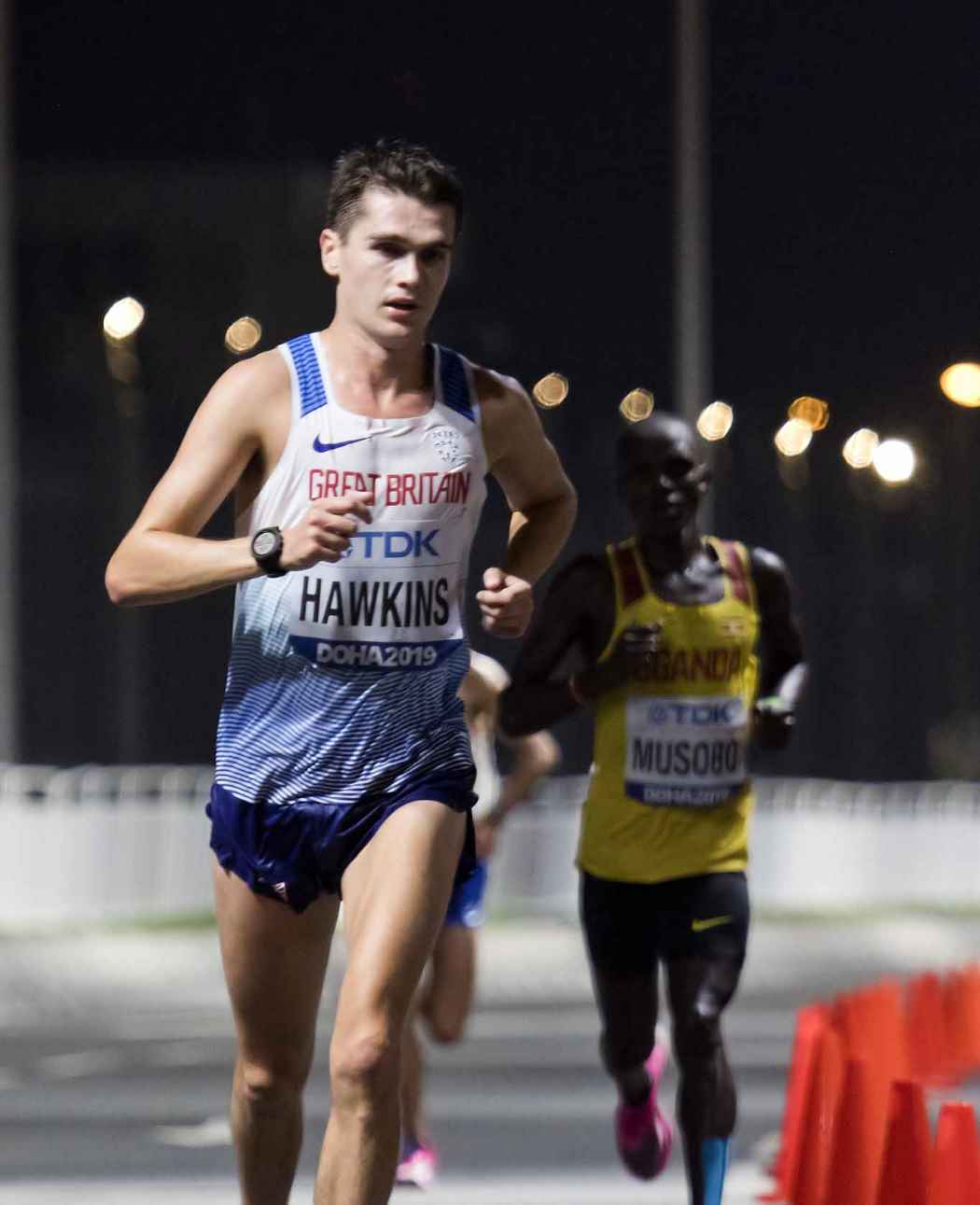 Men's marathon at the 2019 World Athletics Championships in Doha.